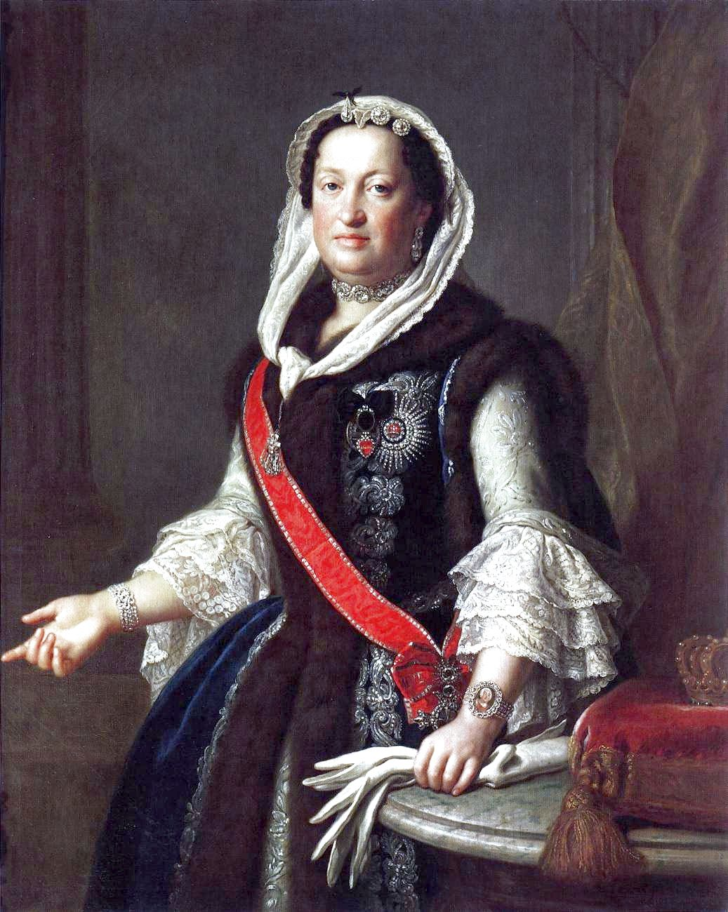 The Queen was portraited in navy-blue jupeczka (fur garment).